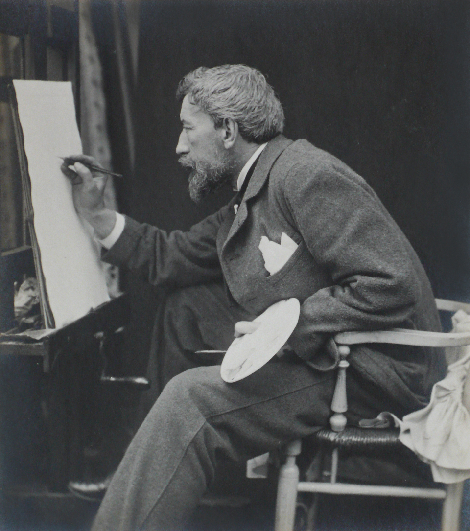 Louis-Maurice Boutet de Monvel dans son atelier